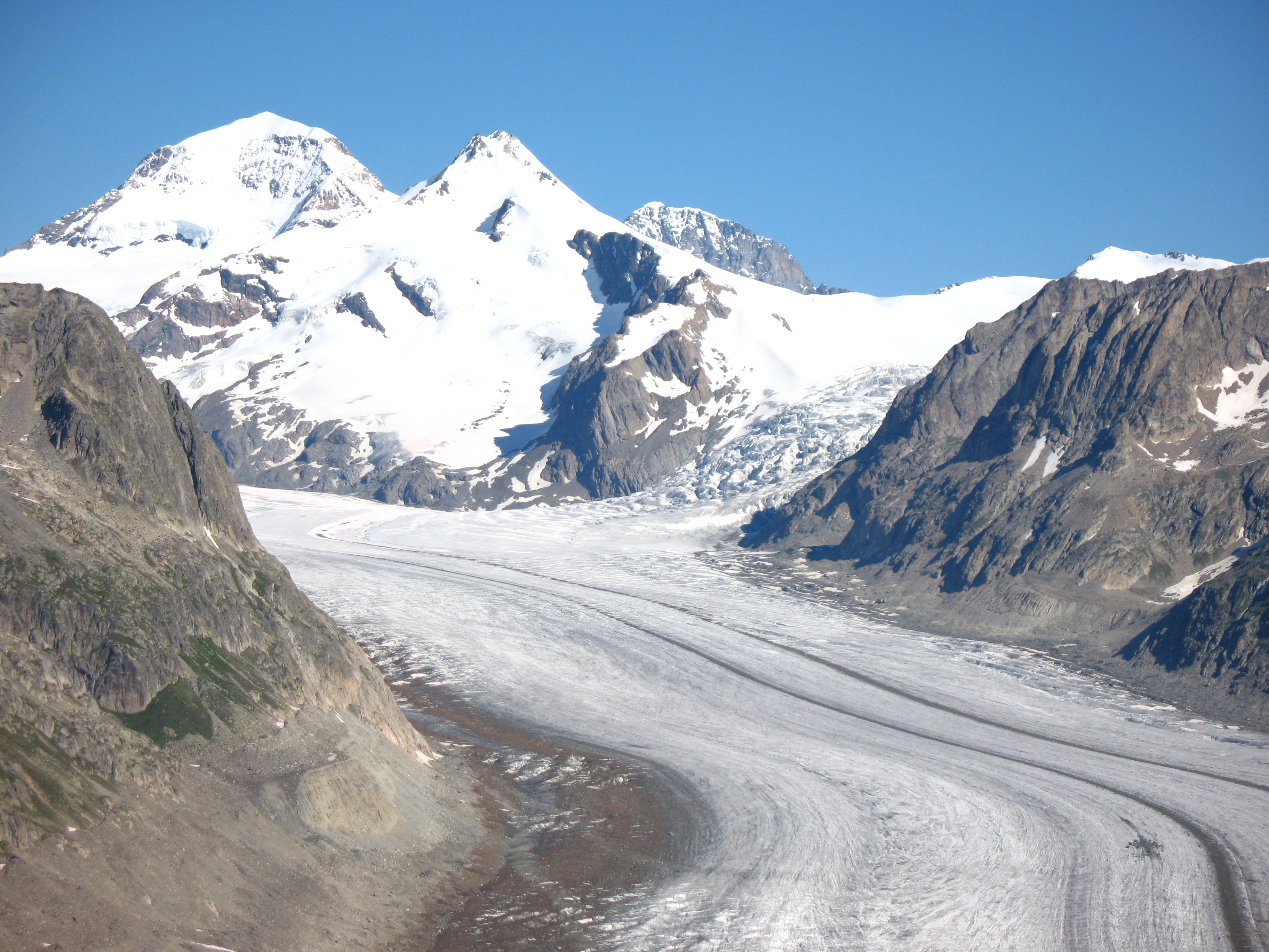 Aletsch Glacier and Mönch viewed from Eggishorn, Fiescheralp, Switzerland